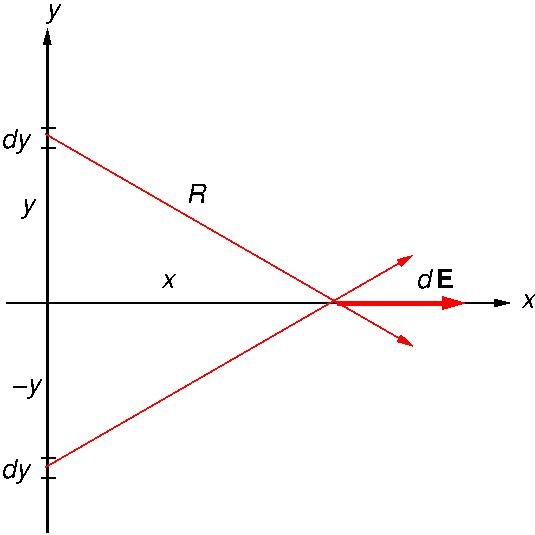 Electric field from infinite line charge